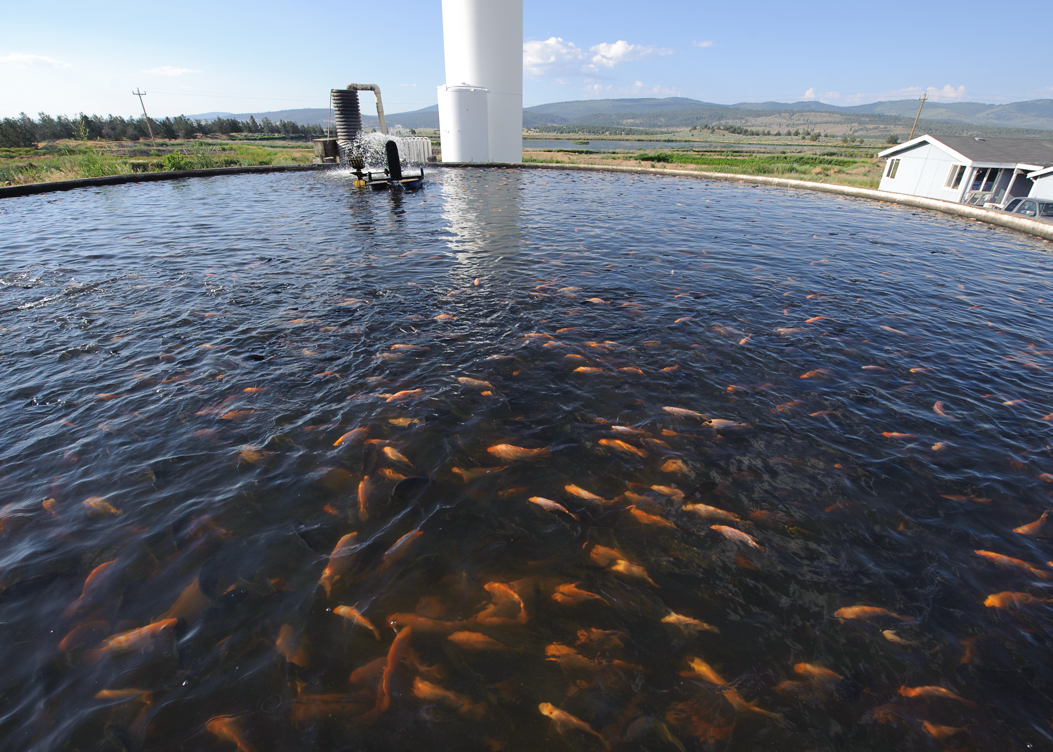 Tilapia growing on Kelley Hot Spring Fish Farm west of Alturas, California, USA